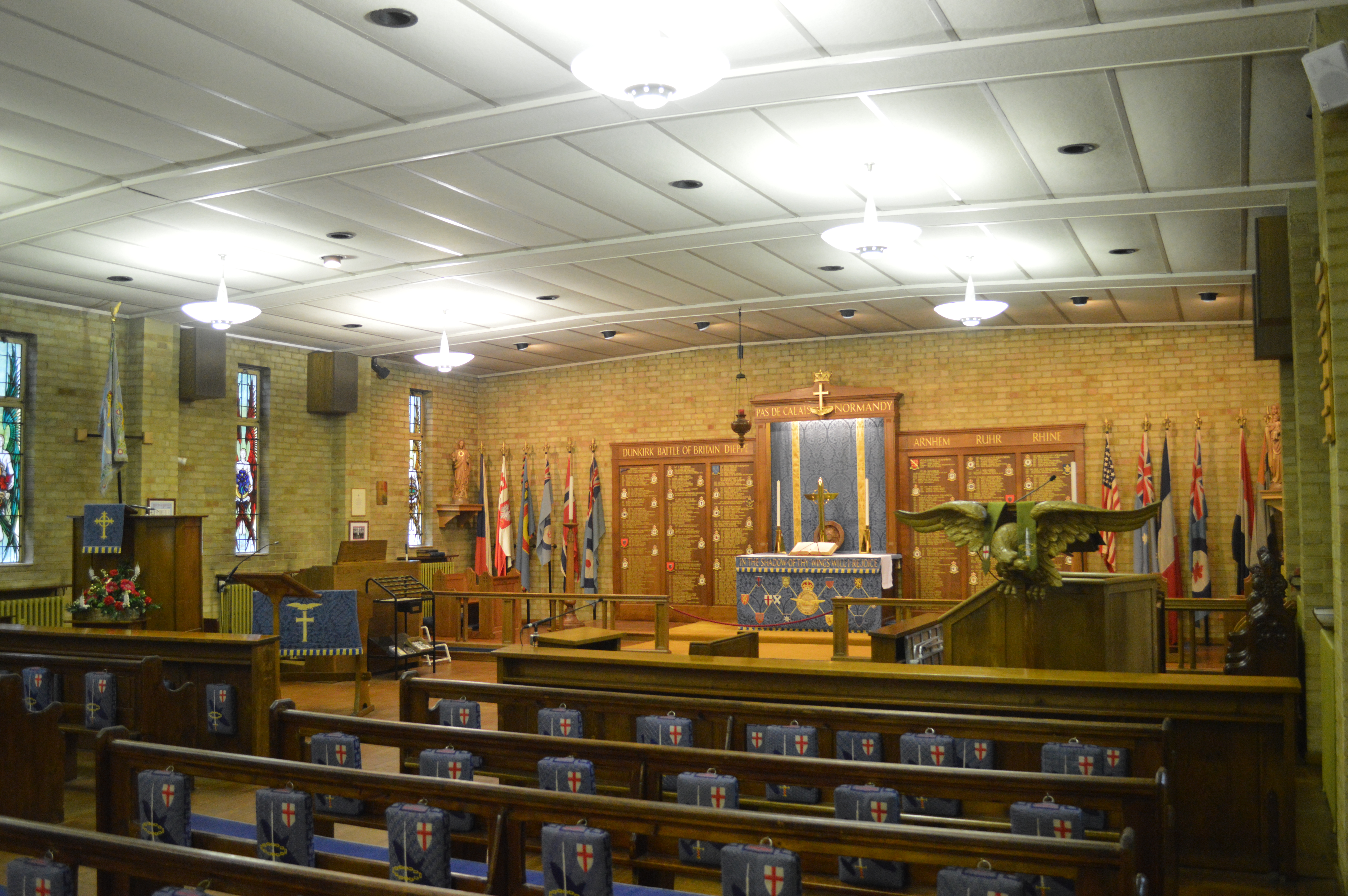 Interior of St George’s Chapel of Remembrance, Biggin Hill. Built in 1951 to replace the original station Chapel destroyed in 1946, it is a memorial to the aircrew who died flying from the Biggin Hill Sector during World War II.